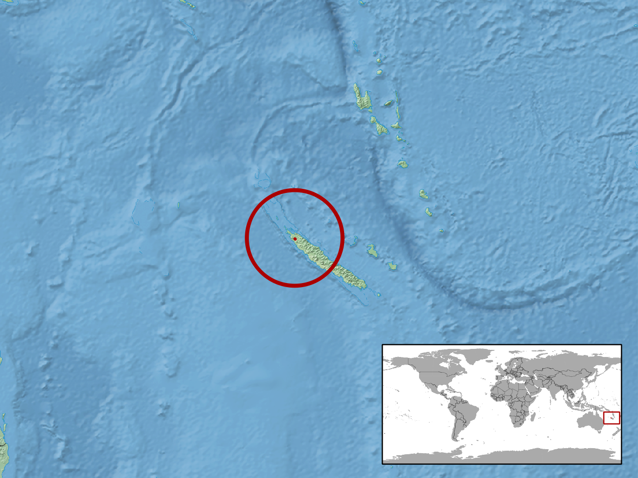 geographic distribution of Lioscincus greeri